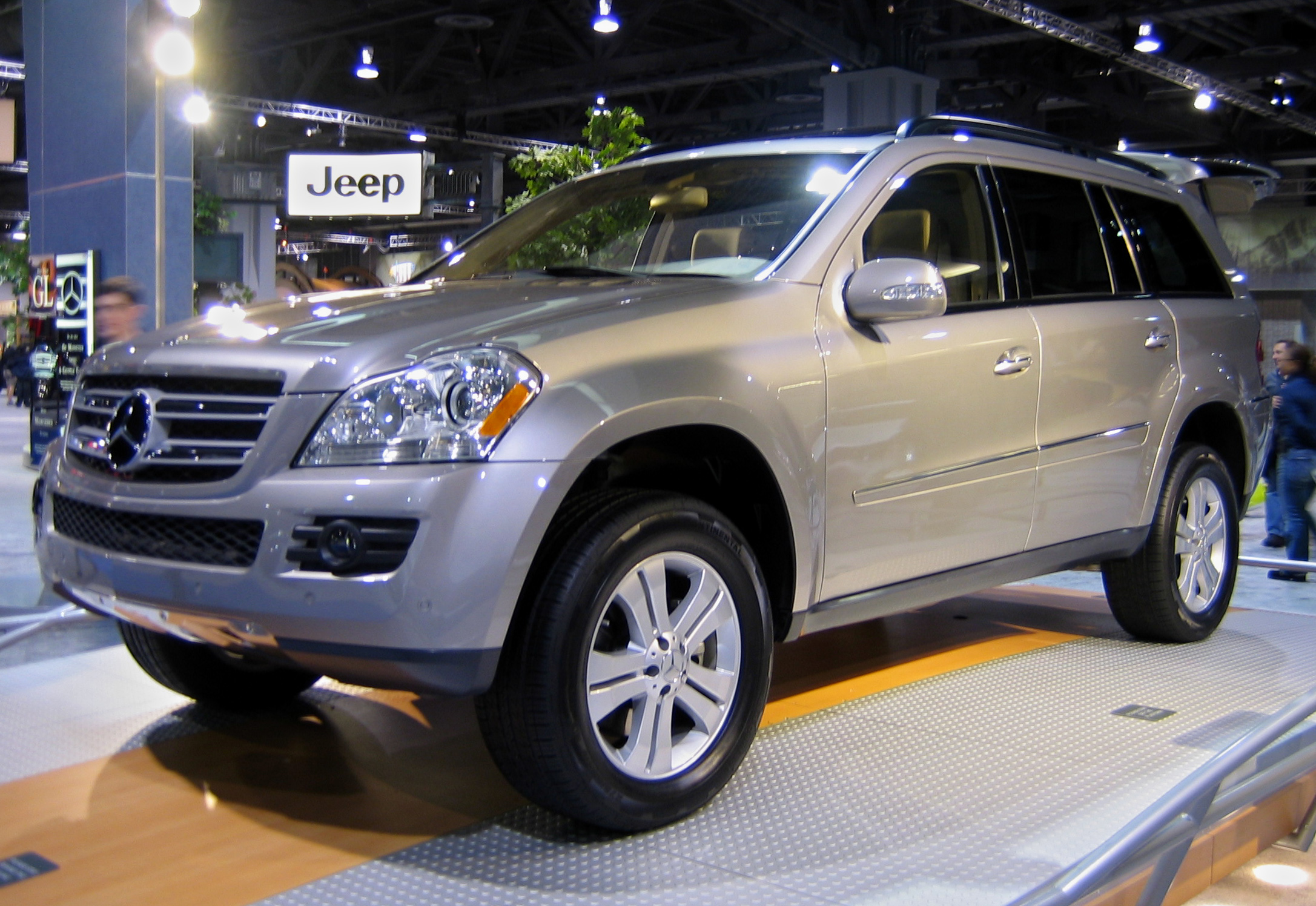 Photo by User:AudeVivere, taken at the 2006 Washington Auto Show.